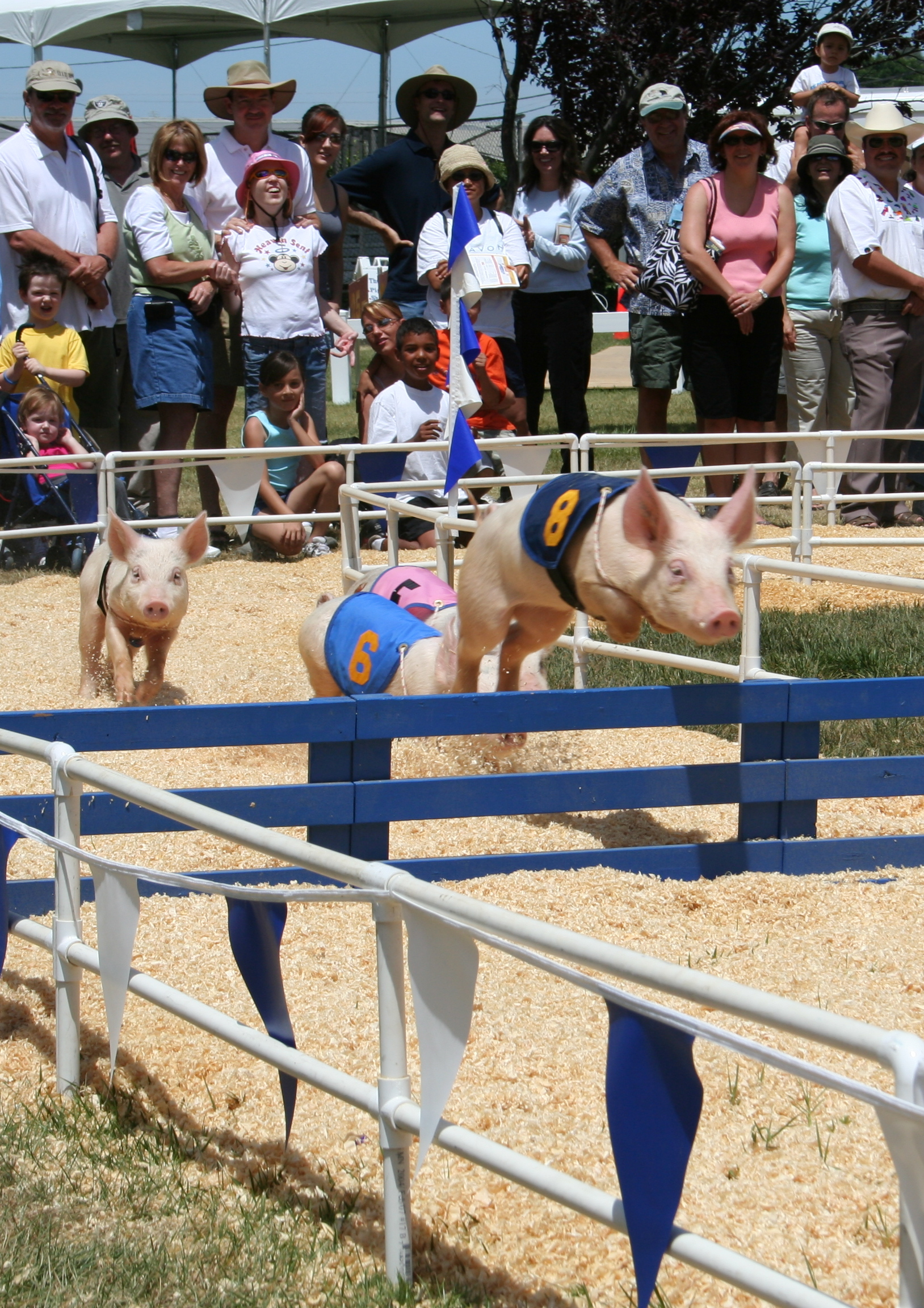 Pig racing at a fair in Pleasanton, California.